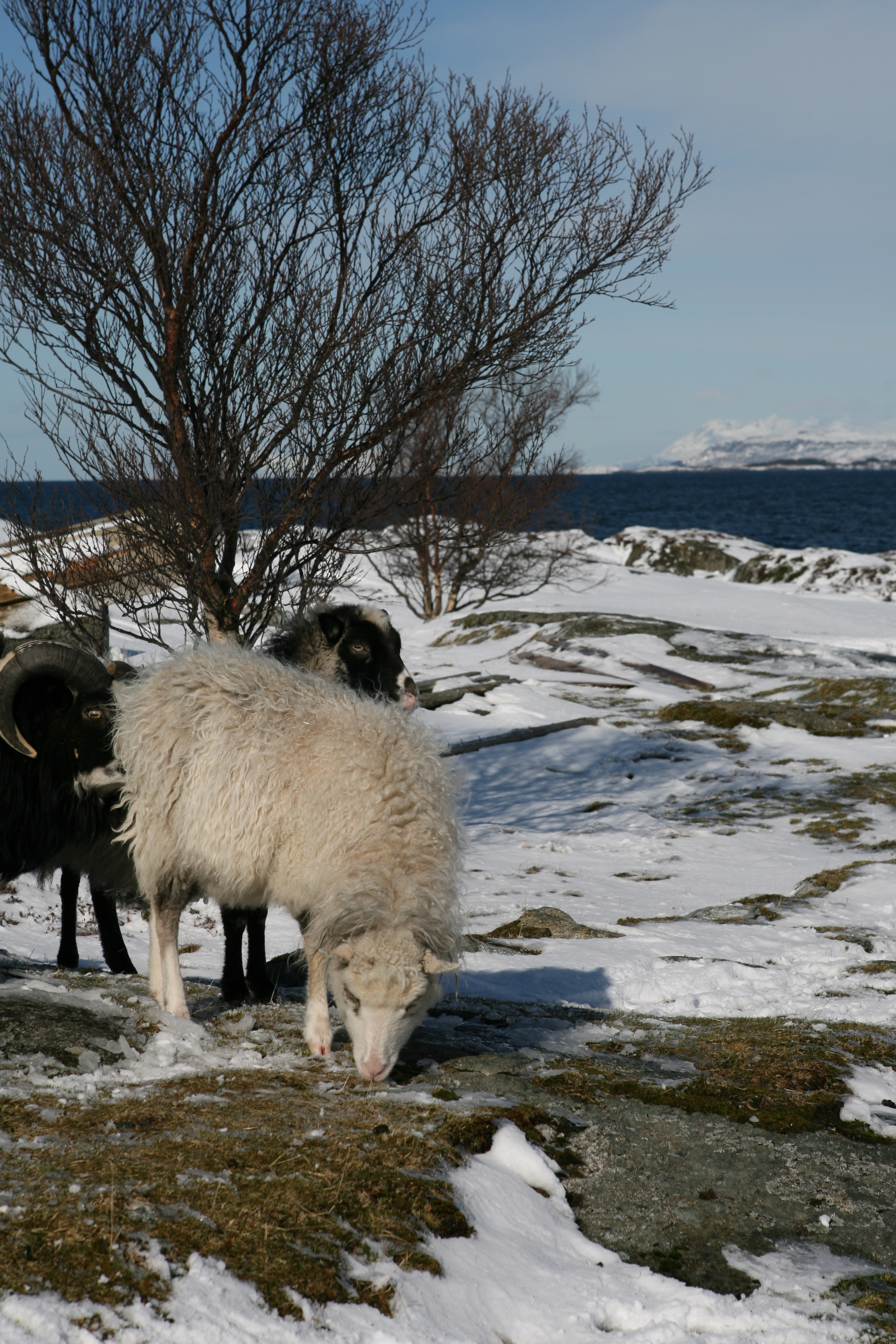 Old Norwegian Sheep at Prestøya, Brønnøy, NorwayNorsk bokmål: Gammelnorsk sau (utegangersau) på Prestøya, Brønnøy, Nordland.